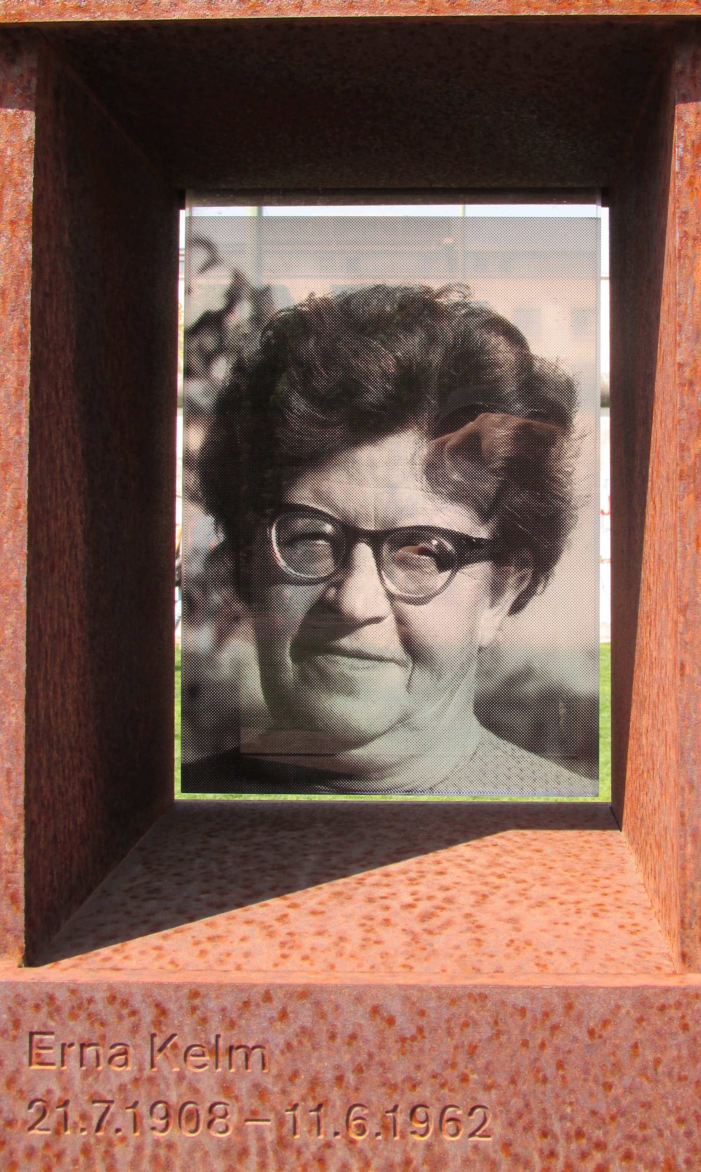 I took the picture myself at the Berlin Wall Memorial on Bernauer Straße, in Berlin